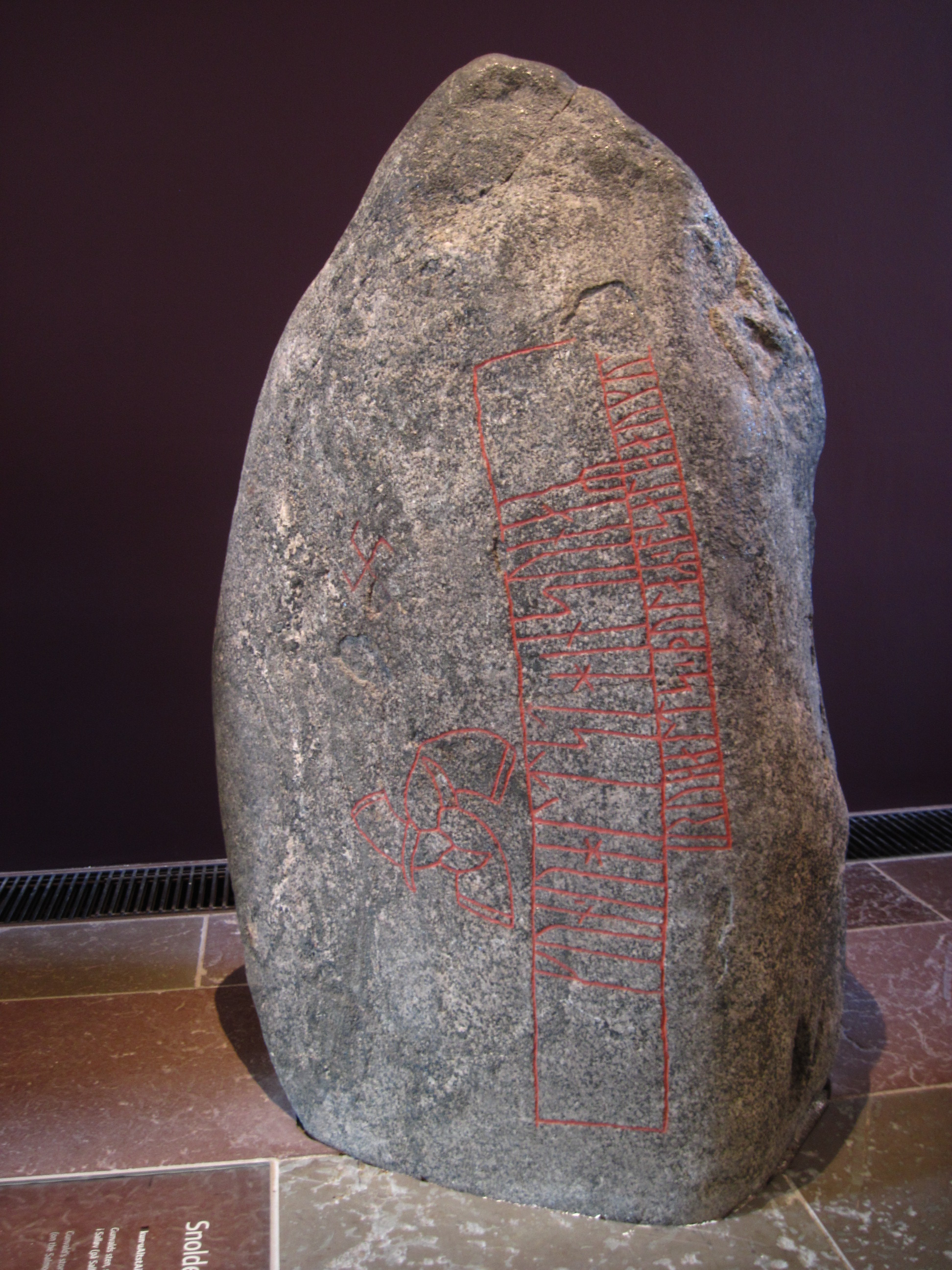 Runestone from Snoldeled, Denmark (c. 8th - 8th century AD). On display at Nationalmuseet in Copenhagen. The text reads: kun:uAltstAlm:sunaR:ruHalts:þular:asalHauku[M]. transl.: Gunvald's stone, son of Roald, thul (speaker, reader?) in Salløv ( on the salmounds).